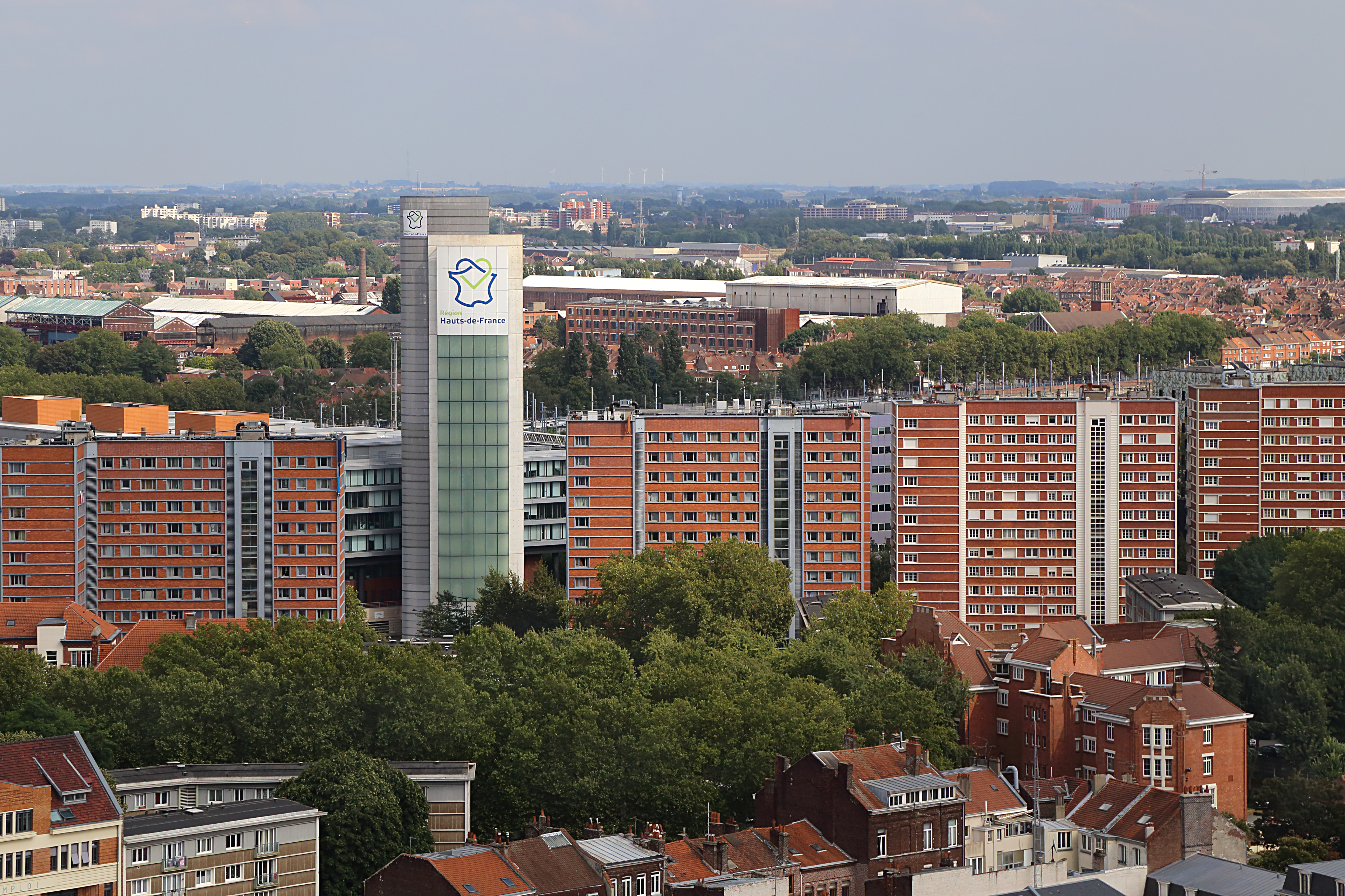 On the left, the Hôtel de région of the Hauts-de-France, in Lille, France, seen from the top of the belfry.